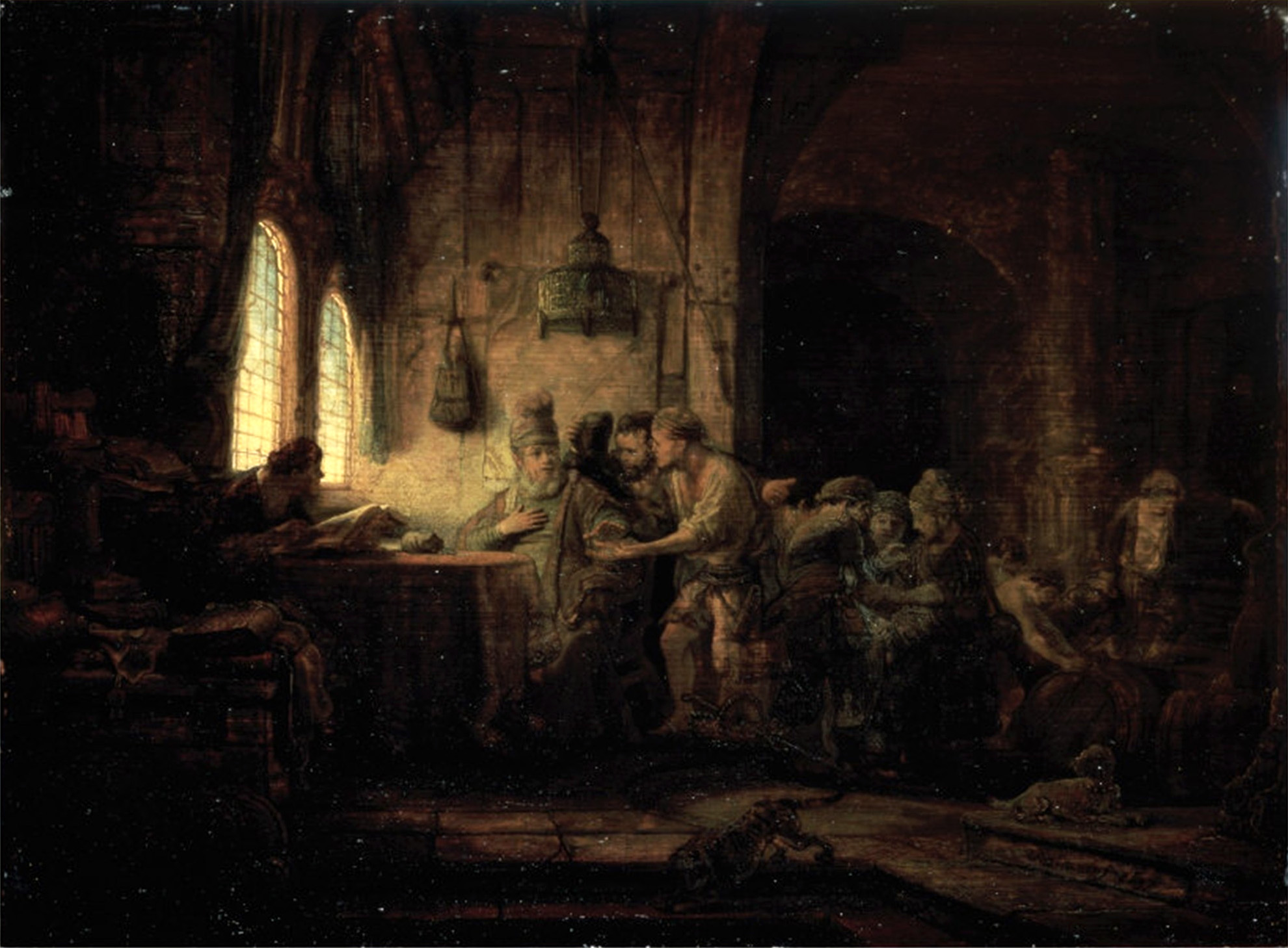 The Parable of the Laborers in the Vineyard. 1637. Oil on panel. The Hermitage, St. Petersburg, Russia. [1]